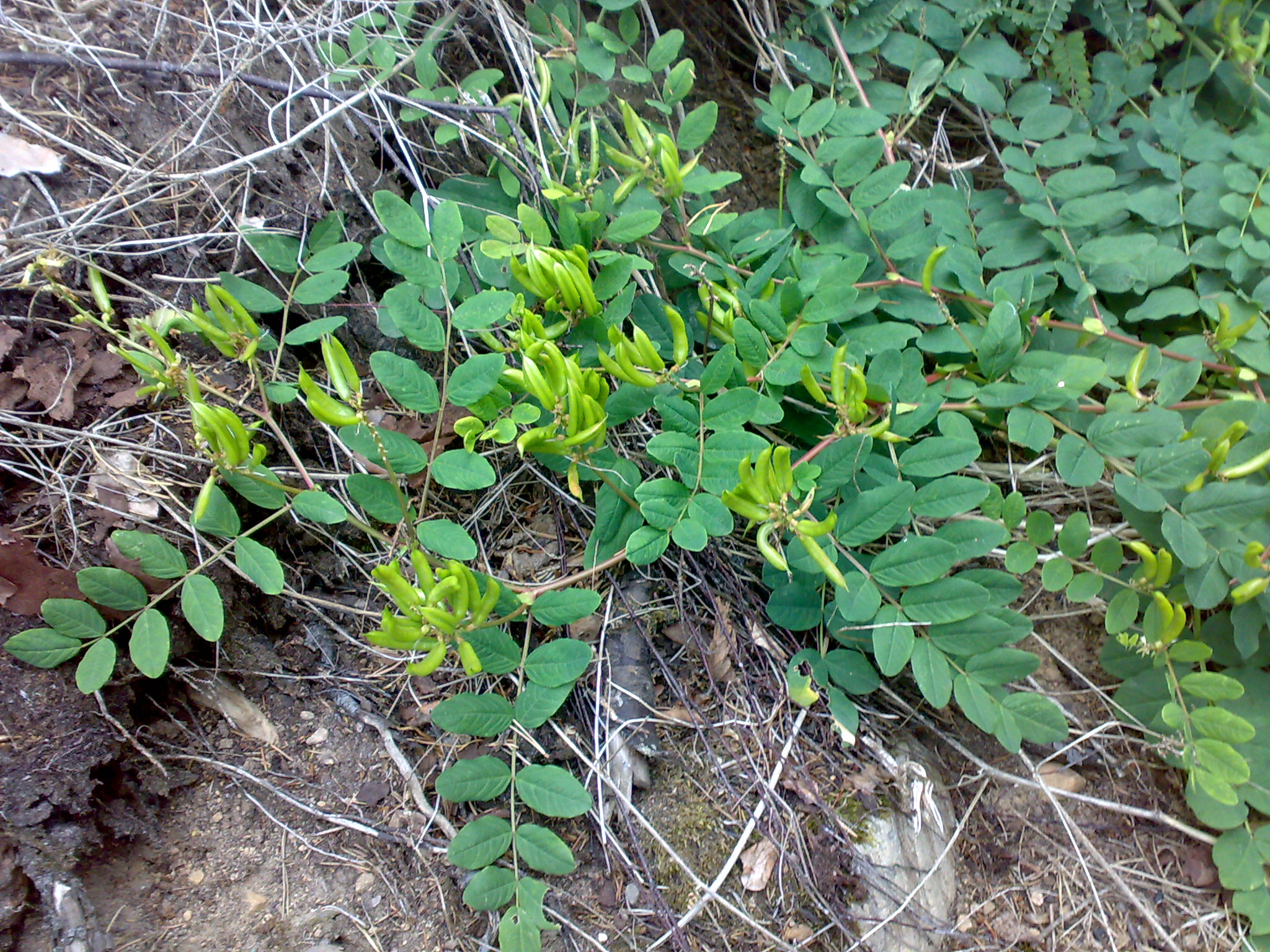 Astragalus glycyphyllos in Hurum, Norway